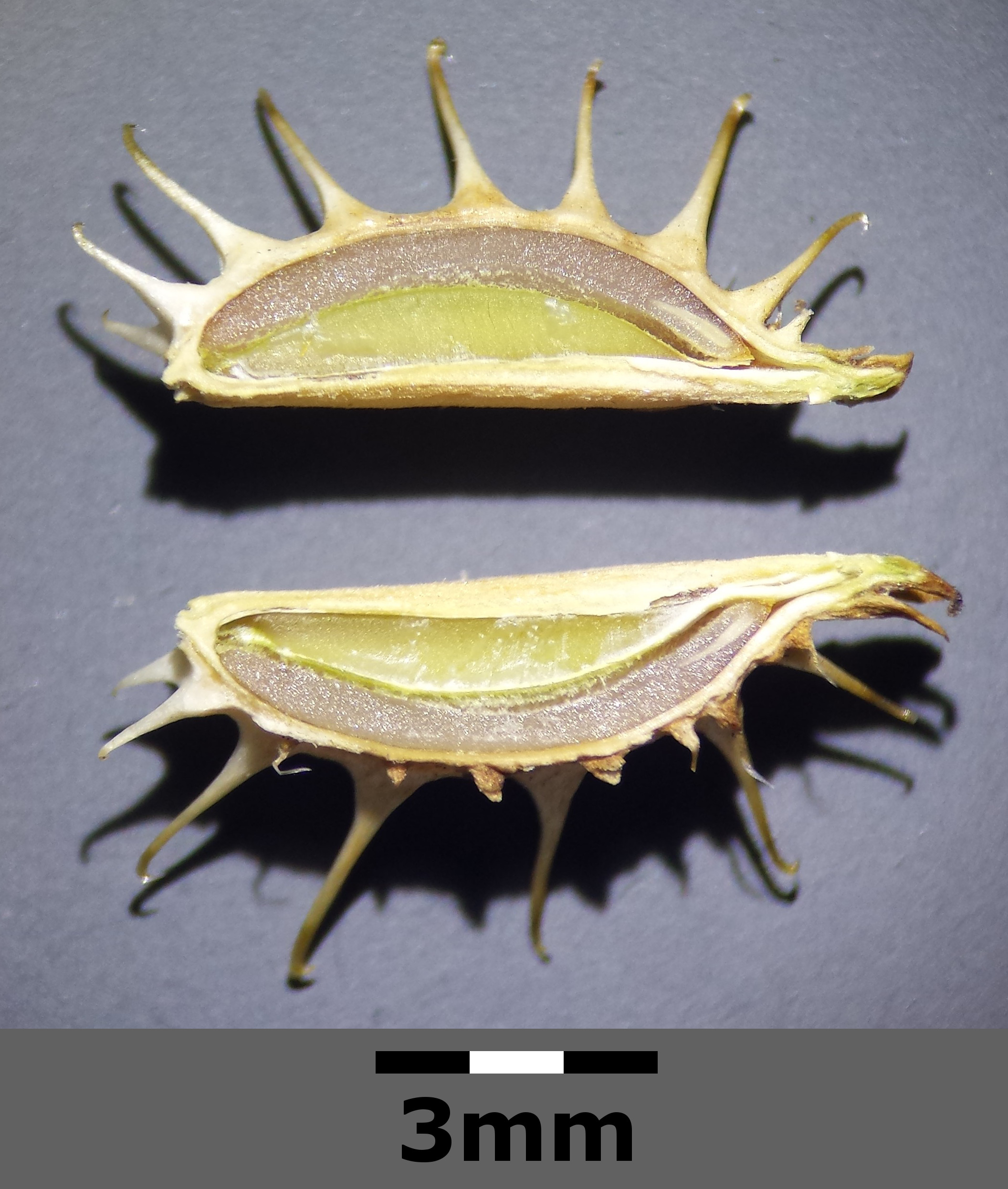 Fruit, cut opened Taxonym: Caucalis platycarpos subsp. platycarpos (ss Fischer et al. EfÖLS 2008 ISBN 978-3-85474-187-9) Location: Steinbacher Heide, Leiser Berge, district Korneuburg, Lower Austria - ca. 450 m a.s.l. Habitat: stony field